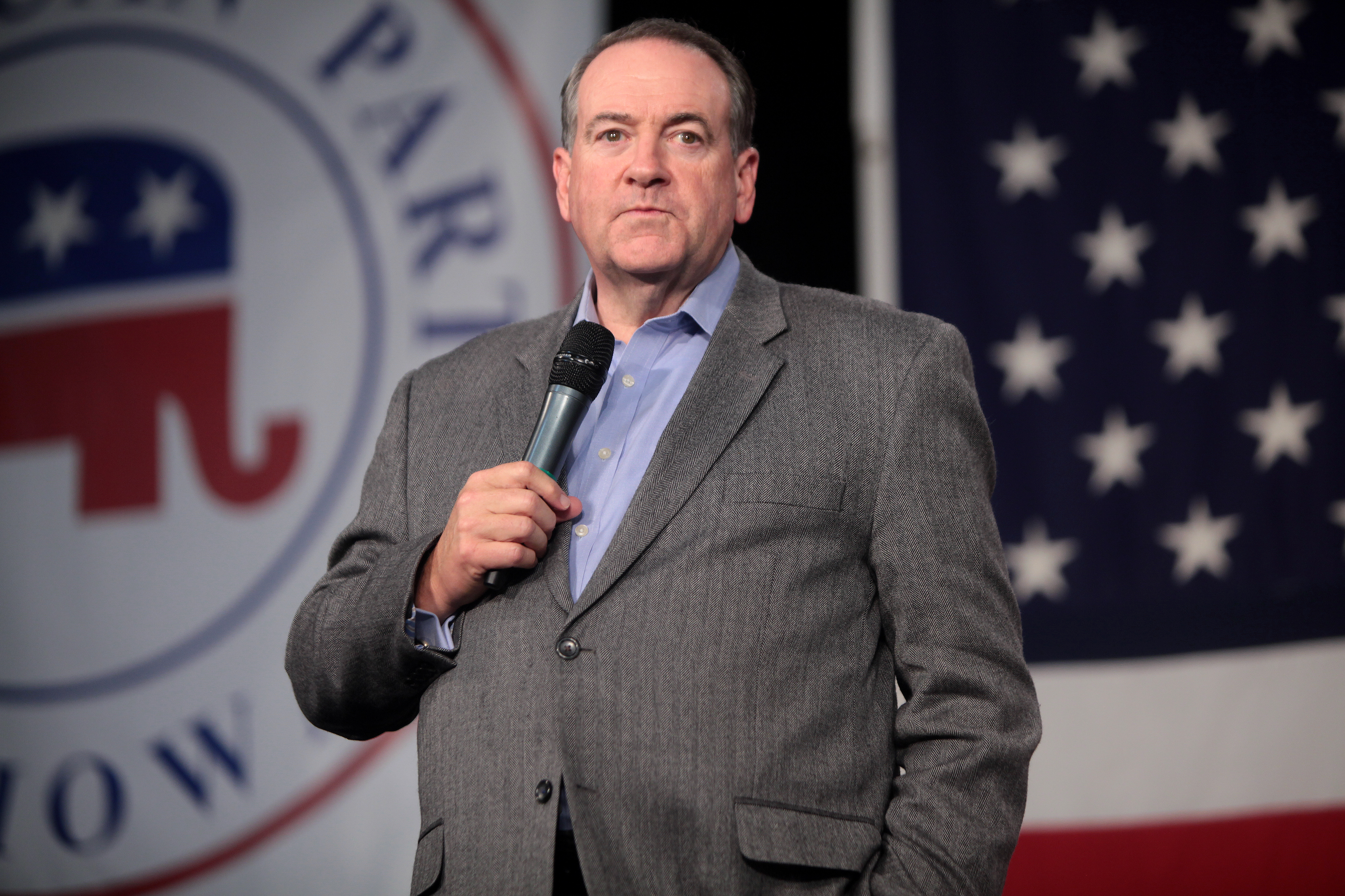 Mike Huckabee speaking at the Iowa GOP's Growth and Opportunity Party in Des Moines, Iowa on October 31, 2015.